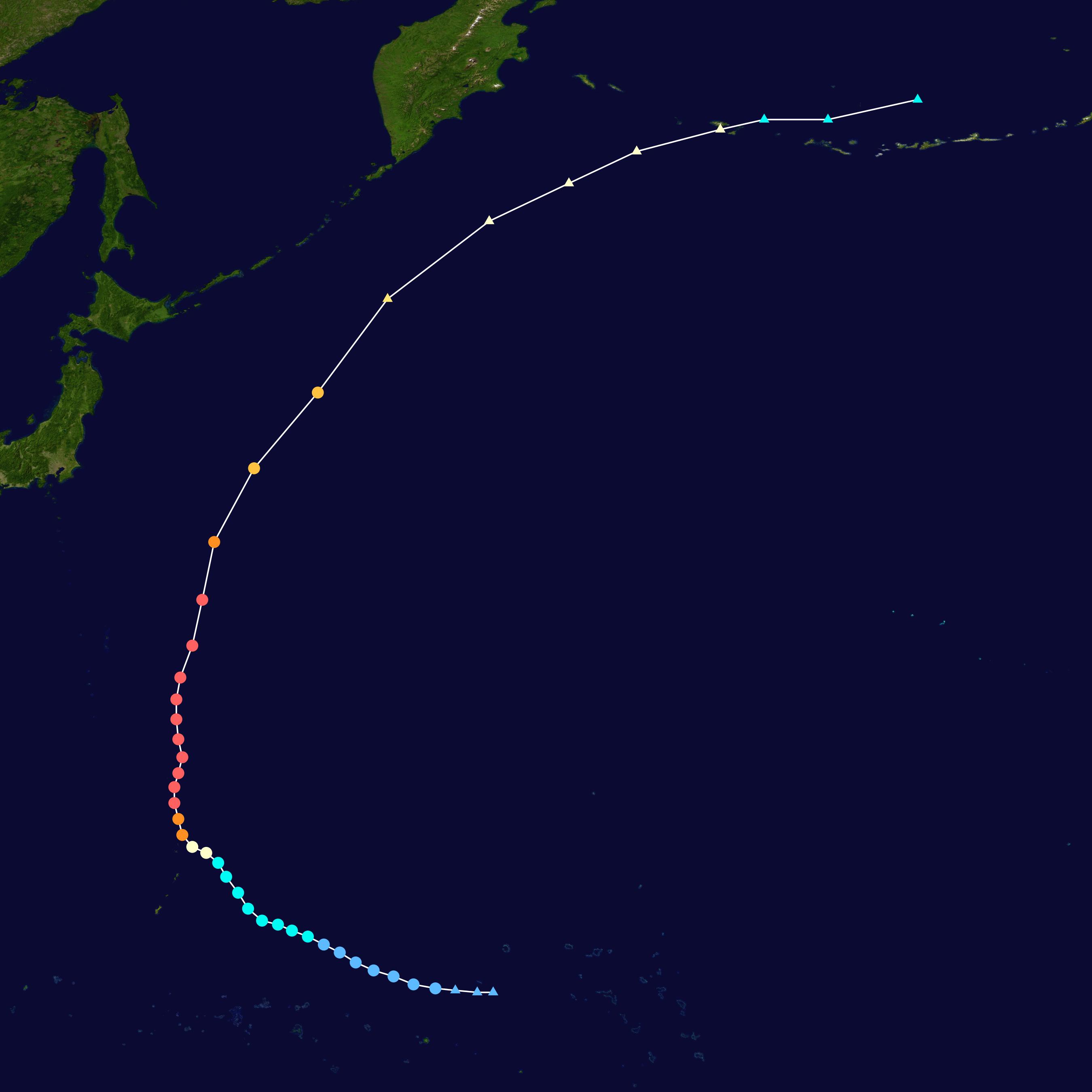 Track map of Typhoon Carmen of the 1965 Pacific typhoon season. The points show the location of the storm at 6-hour intervals. The colour represents the storm's maximum sustained wind speeds as classified in the Saffir–Simpson hurricane wind scale (see below), and the shape of the data points represent the nature of the storm, according to the legend below. Saffir–Simpson hurricane wind scale Tropical depression≤38 mph≤62 km/h Category 3111–129 mph178–208 km/h Tropical storm39–73 mph63–118 km/h Category 4130–156 mph209–251 km/h Category 174–95 mph119–153 km/h Category 5≥157 mph≥252 km/h Category 296–110 mph154–177 km/h Unknown Storm typeTropical cycloneSubtropical cycloneExtratropical cyclone / Remnant low / Tropical disturbance